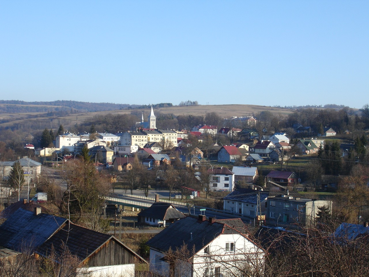 Bircza view, dec. 2006 - National road DK28 (Poland)